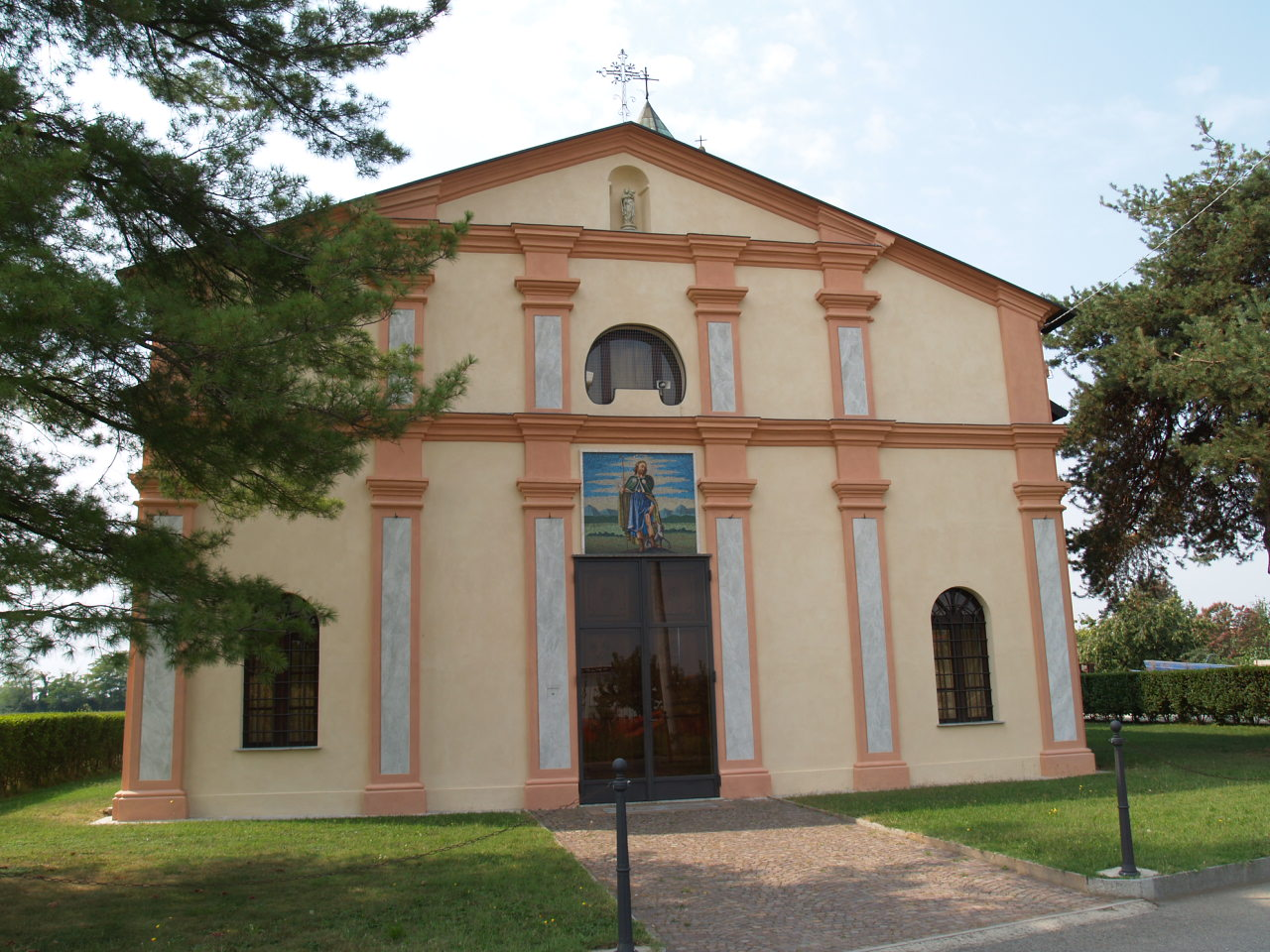 San Rocco Church in Rodallo